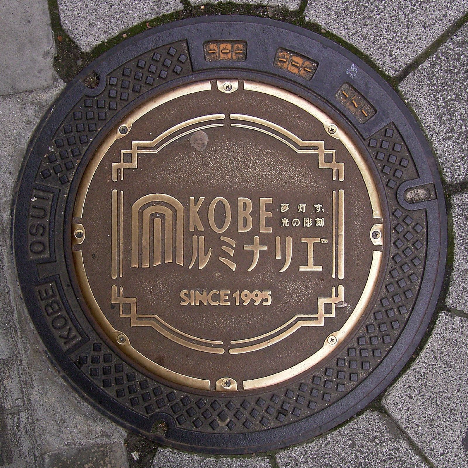 Location: Chuo-ku, Kobe, Japan A manhole cover commemorating the KOBE Luminarie, an event in remembrance of the Great Hanshin earthquake.